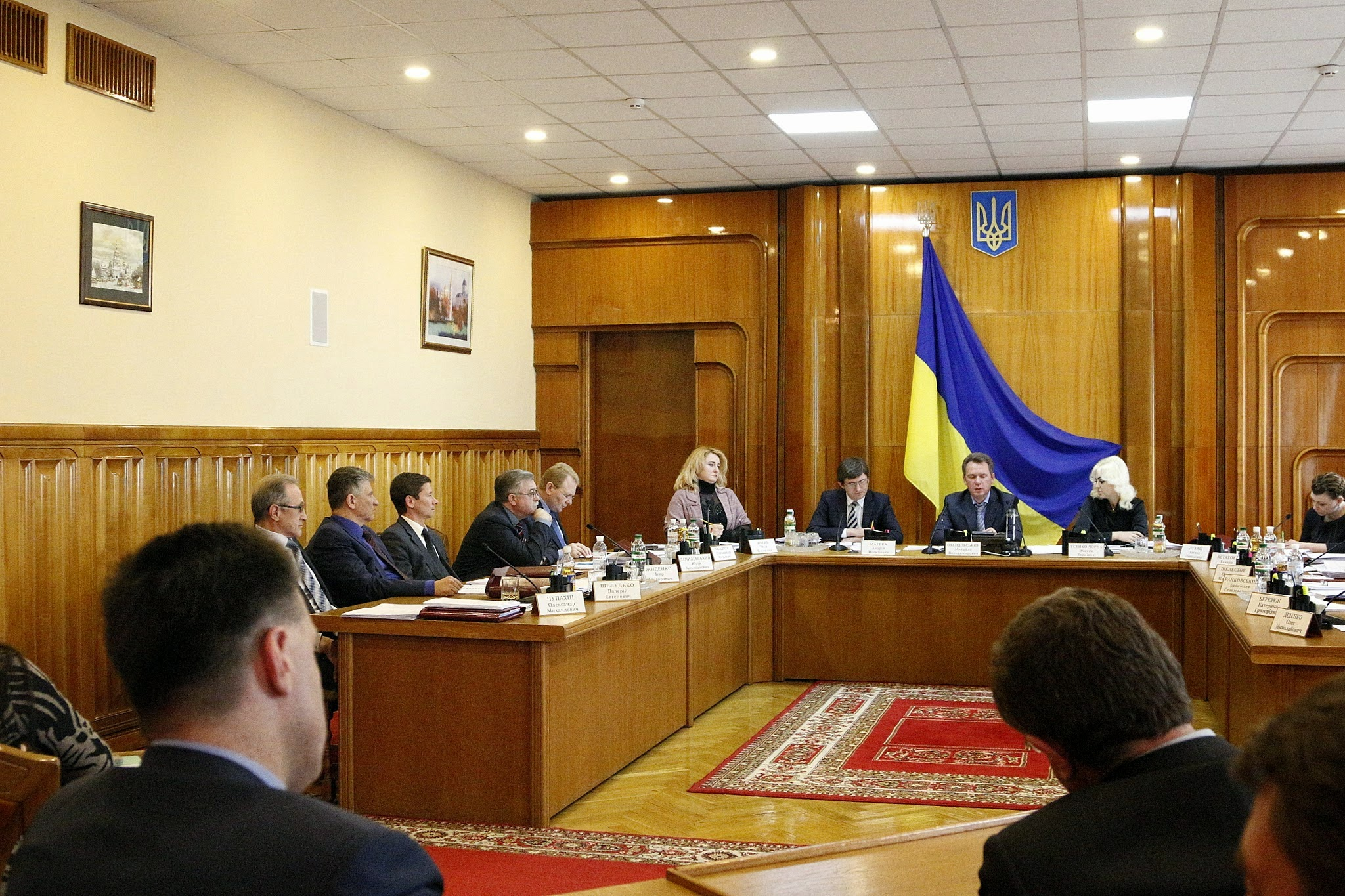 Central Election Commission of Ukraine as of April 2014